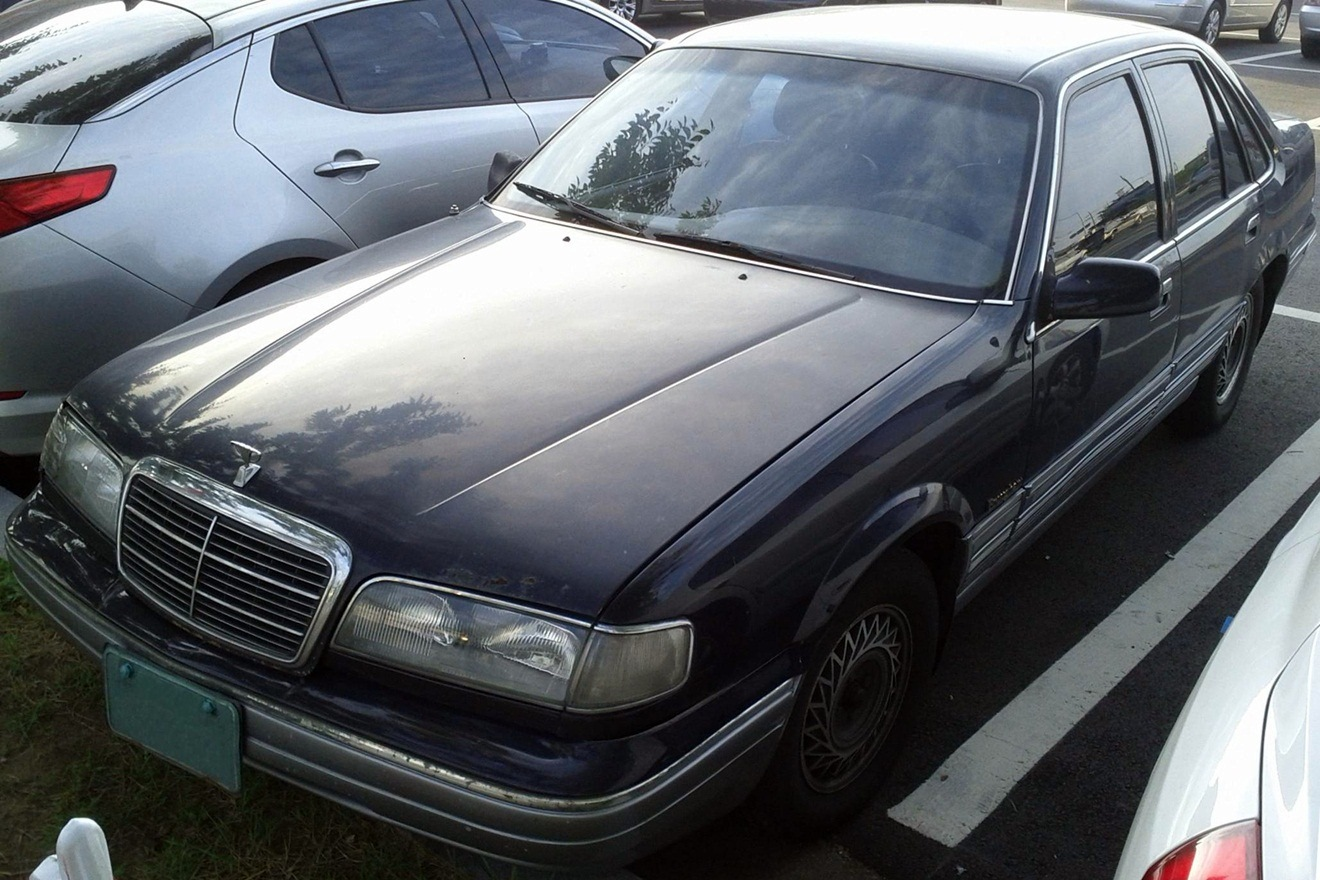 Daewoo Super Salon